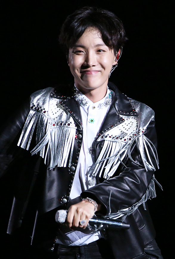 J-Hope at the Love Yourself world tour in Seoul, August 25-26, 2018, at Jamsil Olympic Stadium